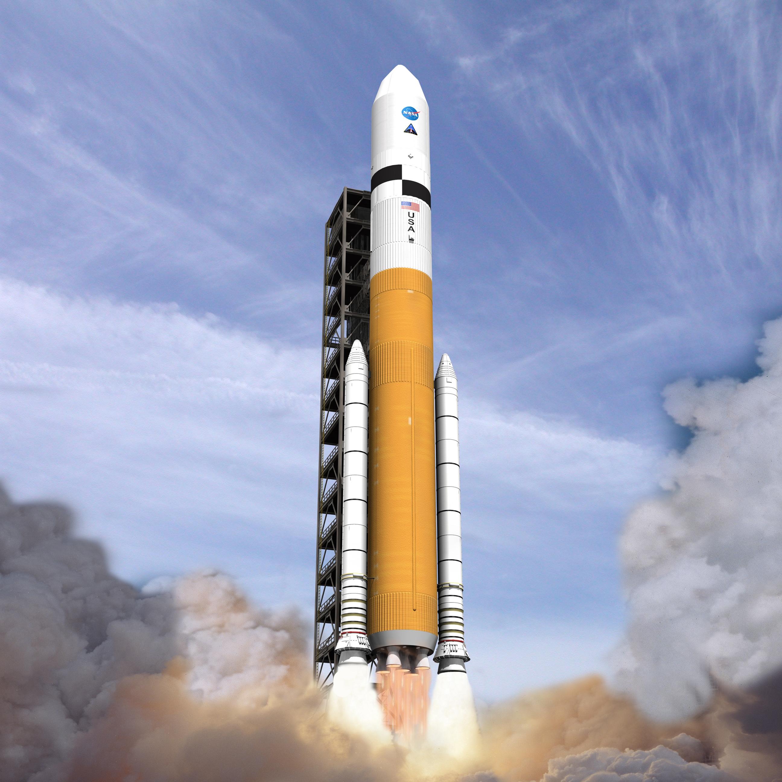 A concept image shows the Ares V cargo launch vehicle launching from NASA's Kennedy Space Center, Fla., Image credit: NASA/MSFC